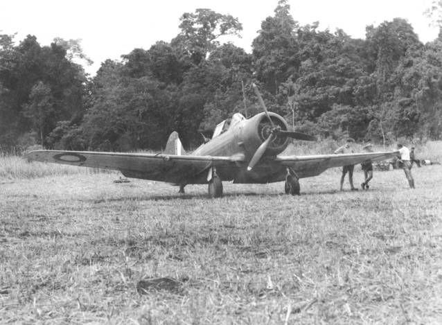 POPONDETTA AIRSTRIP, C.1942-12. WIRRAWAY AIRCRAFT OF NO.4 SQUADRON RAAF PERSONNEL LEFT TO RIGHT: FLYING OFFICER JOHN M. UTBER (401866) PILOT, CORPORAL SID McGIBBON FITTER IIE, CORPORAL STEVE MAUGHER FITTER IIA.